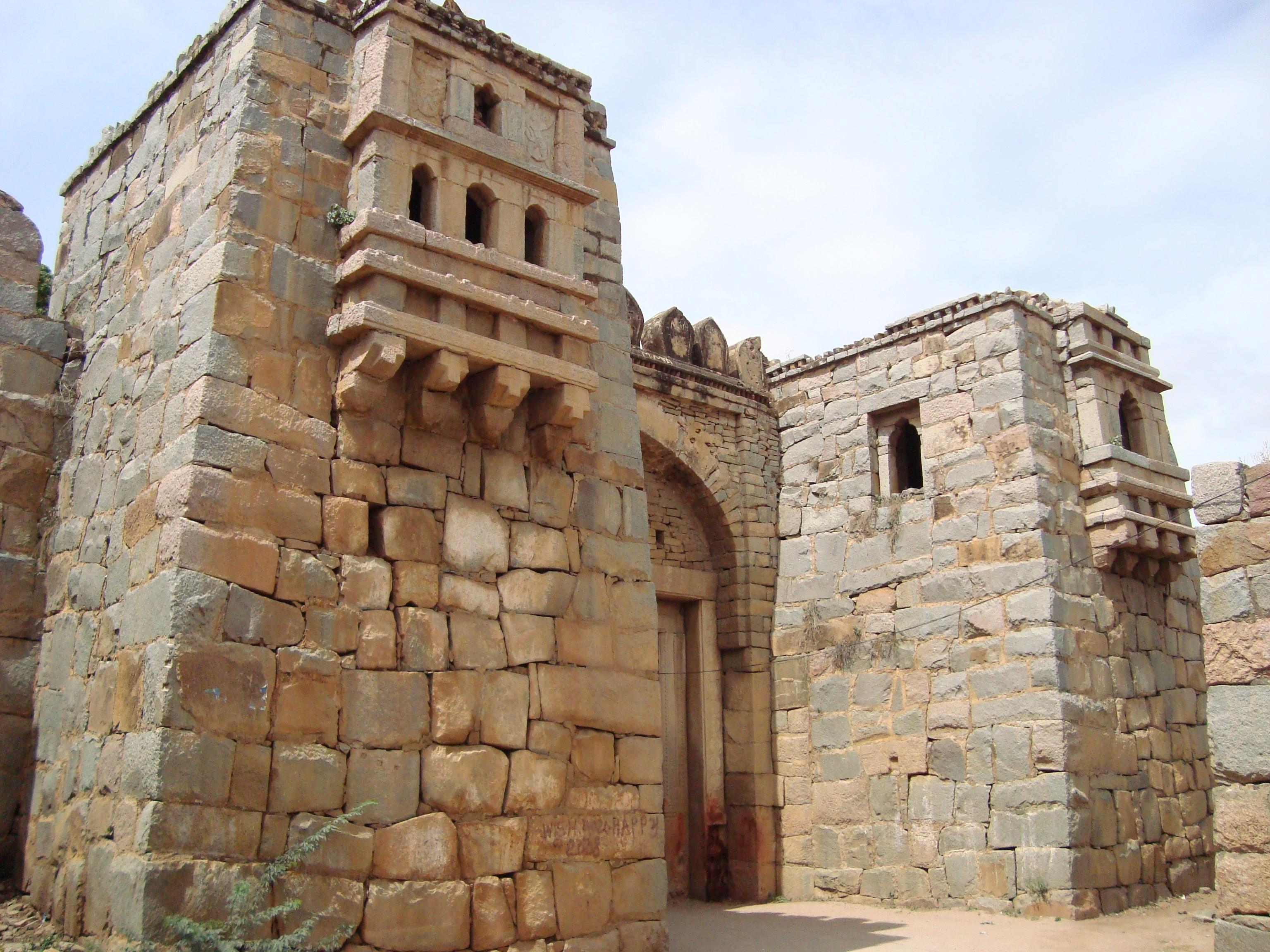 Mudgal fort Source and Author : Manjunath Doddamani, Gajendragad / Hubli, Karnataka, India